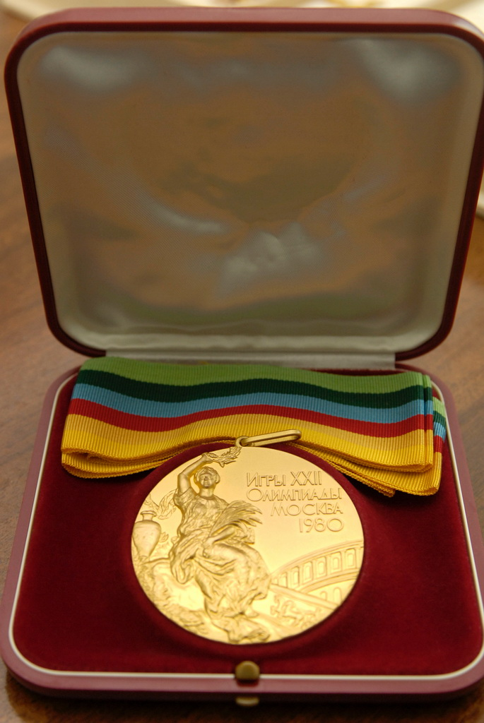 “Exhibits, Russian State Depository for Precious Metals”. Gold medal of the 22nd Olympic Games (Moscow, 1980) – an exhibit of the collector items fund, Russian State Depository for Precious Metals.